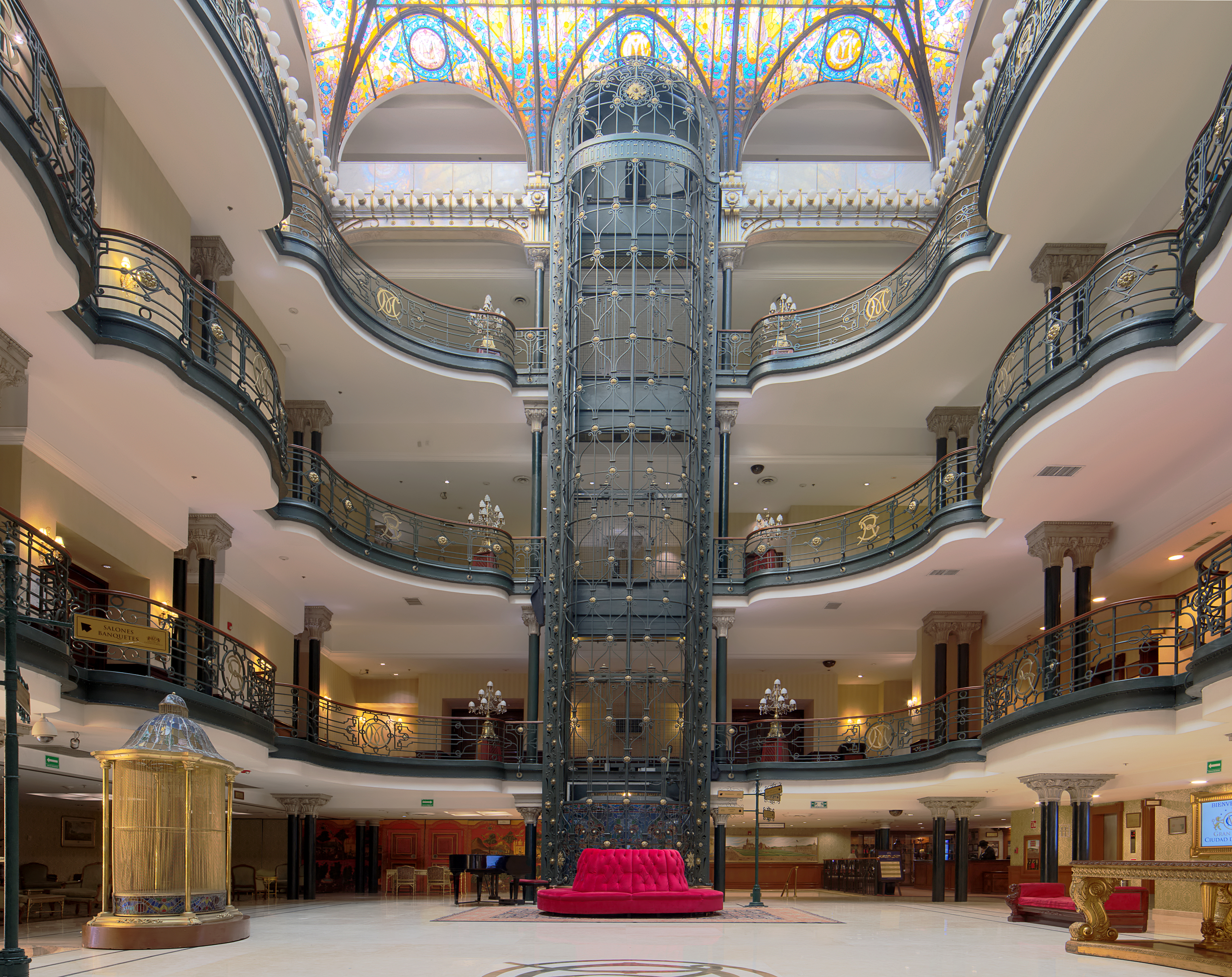 Gran Hotel Ciudad de Mexico, hotel atrium with elevator and balconies In the Old Portal de Mercaderes, on 16 de Septiembre street in the historic center of Mexico City.